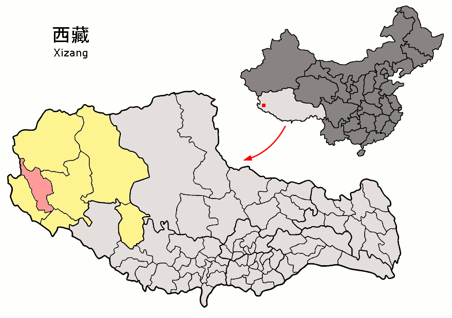 Location of Gar County (pink) and Ngari Prefecture (yellow) within Tibet (Xizang) autonomous region of China